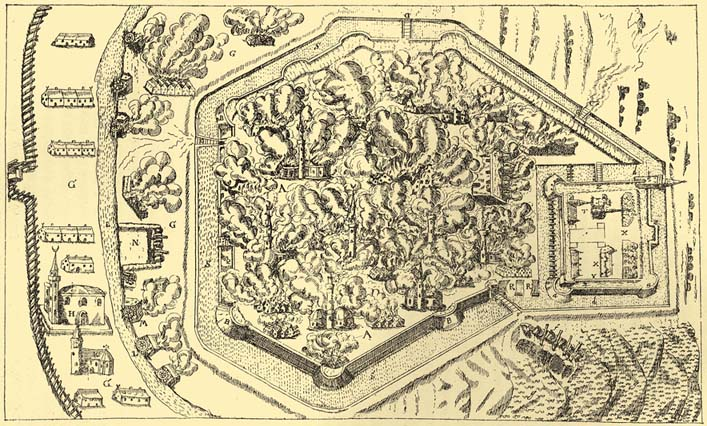 The Siege of Pécs (1664)